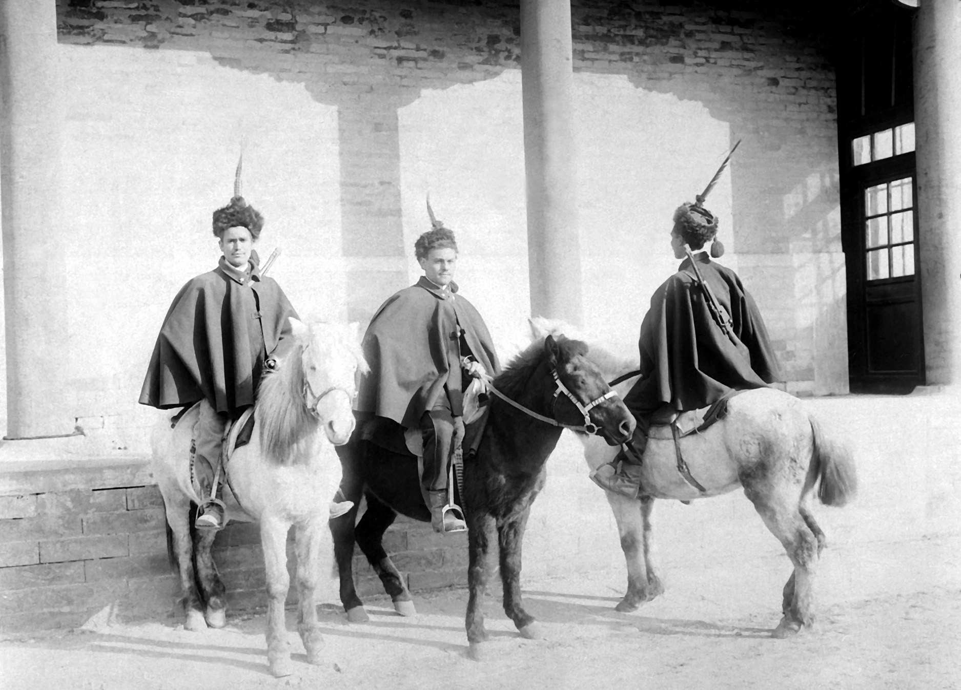 Italian mounted infantry in China during the Boxer Rebellion in 1900. ID: HD-SN-99-01989 NARA FILE #: 165-CR-4B-1 WAR & CONFLICT BOOK #: 330